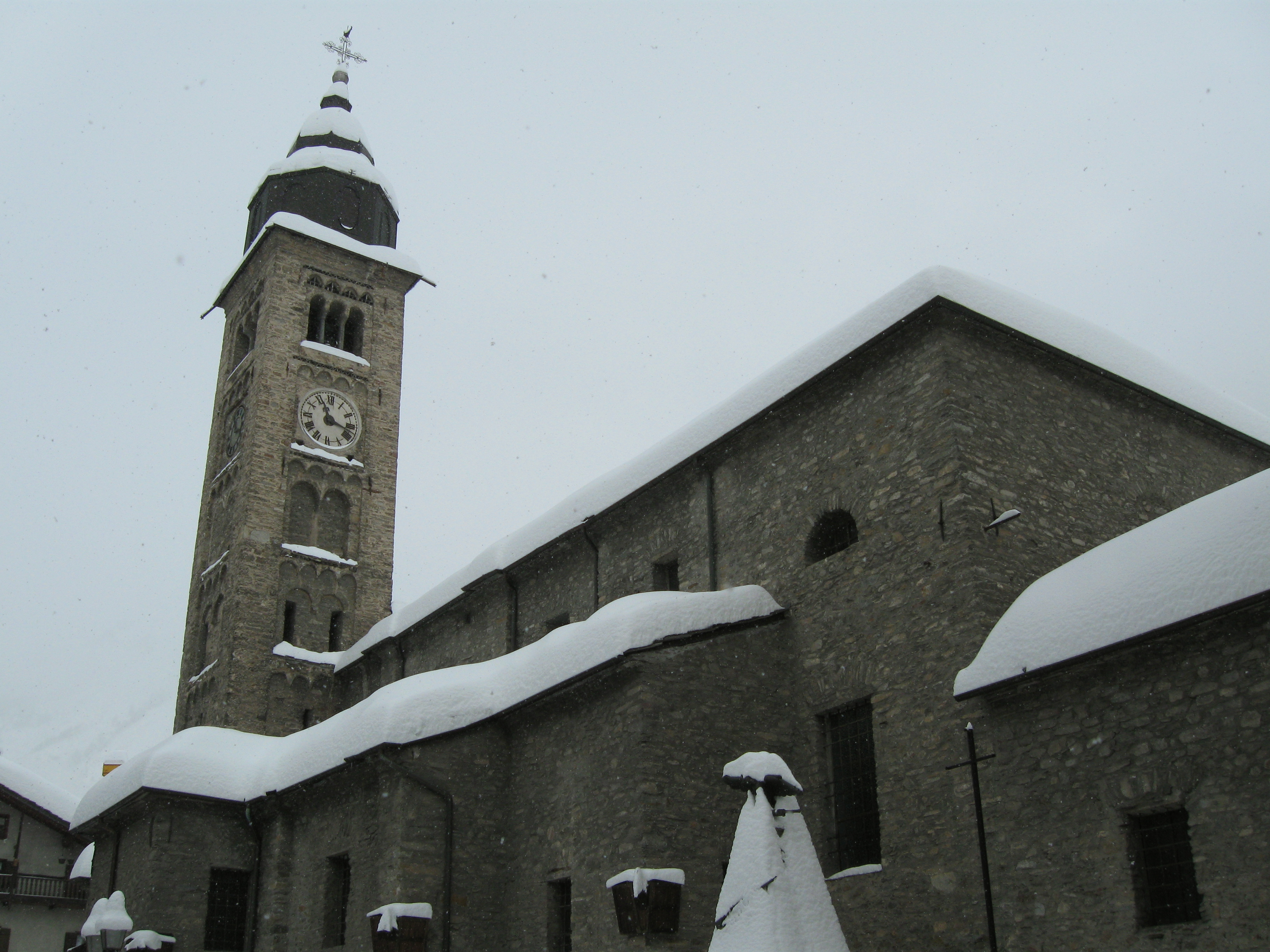 Church of Morgex durante una nevicata, Aosta, Italy.